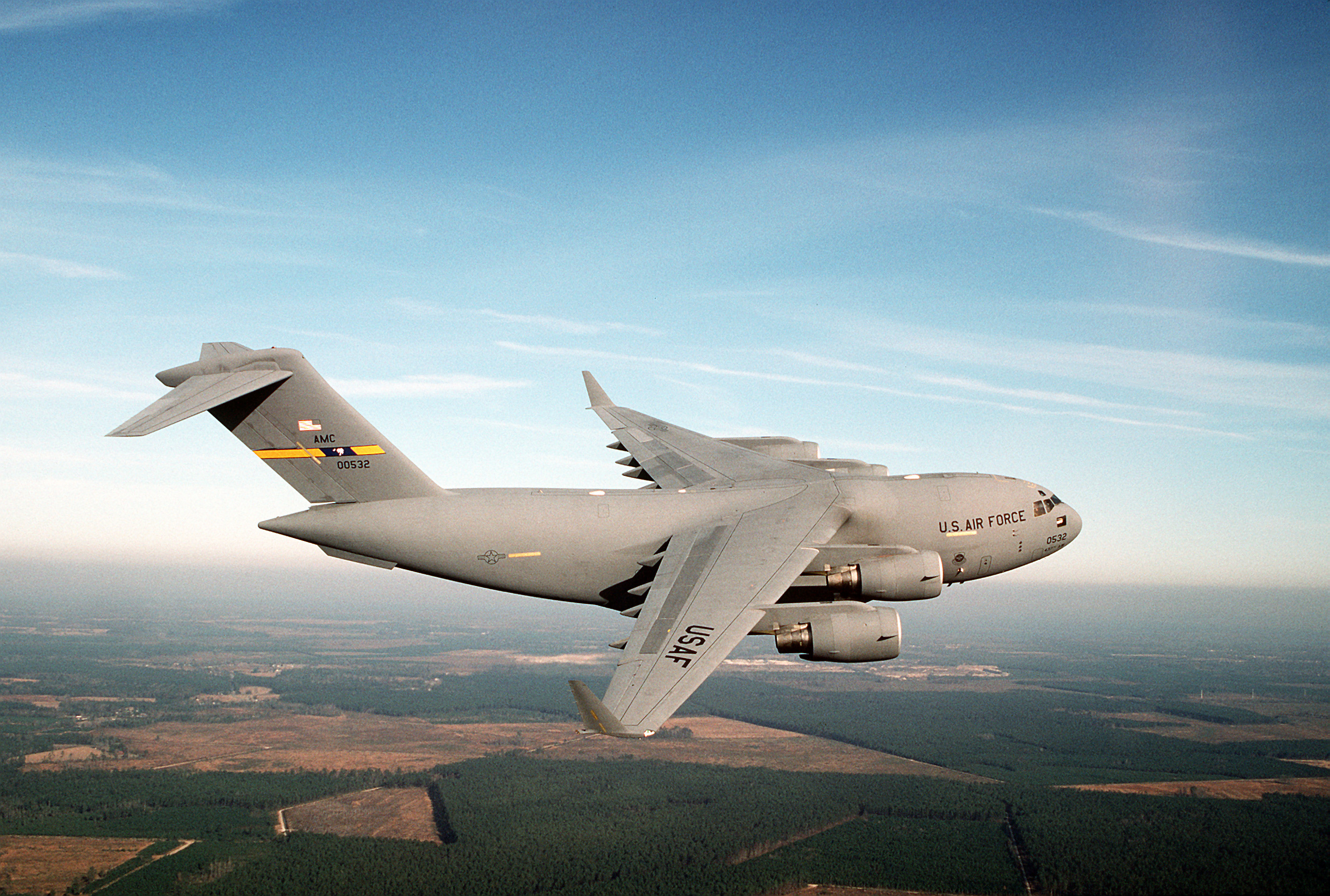 A C-17 Globemaster III from the 437th Airlift Wing, Charleston AFB, South Carolina, flies over the coast near Charleston, South Carolina.